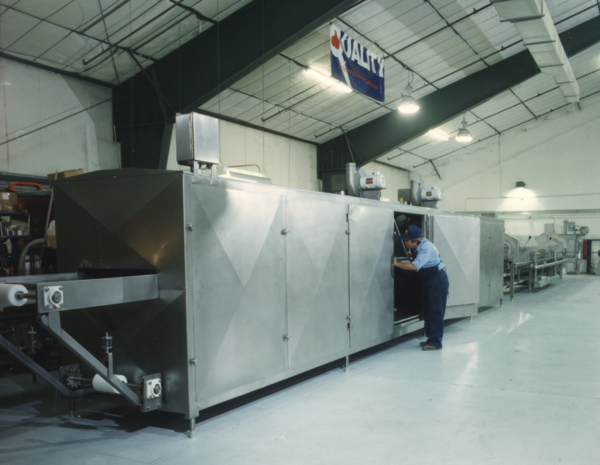 DEMACO DTC-1000 Treatment Center for fresh pasta production. DEMACO built this machine in 1995 at its dryer production facility located at 7825A Ellis Road, Melbourne, Florida. This treatment center consists of a steamer (back right) and a dryer (front left), and is part of a production line to produce fresh pasta. The steamer pasteurizes the pasta using steam and the dryer removes any free moisture on the product from the steaming process. After passing through the treatment center, the pasta generally goes into a modified atmosphere package. This process and packaging typically extend the shelf life of refrigerated fresh pasta to 45 days.